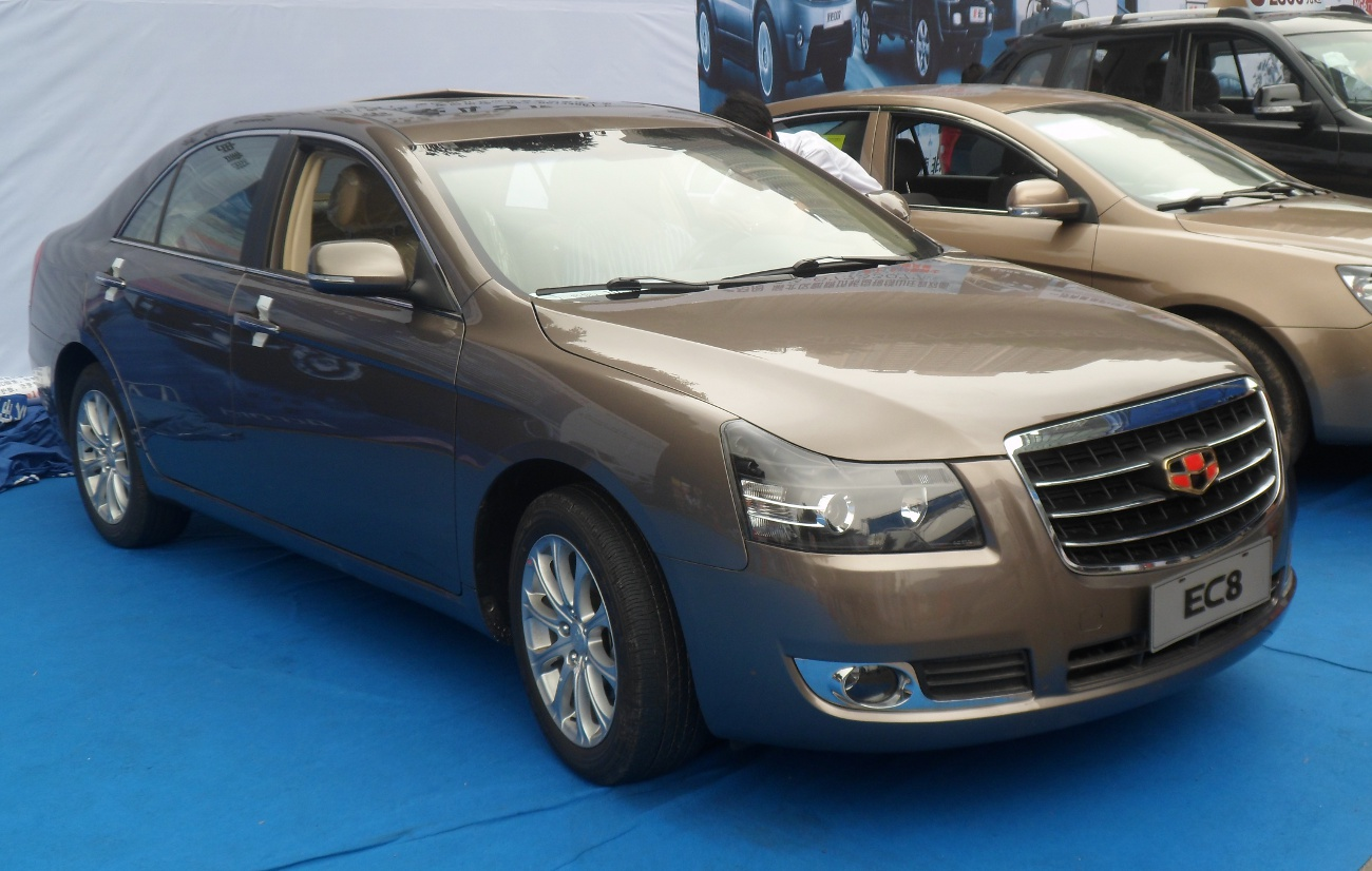 Emgrand EC8 photographed at the 2012 Chongqing Auto Show, Chongqing, China.